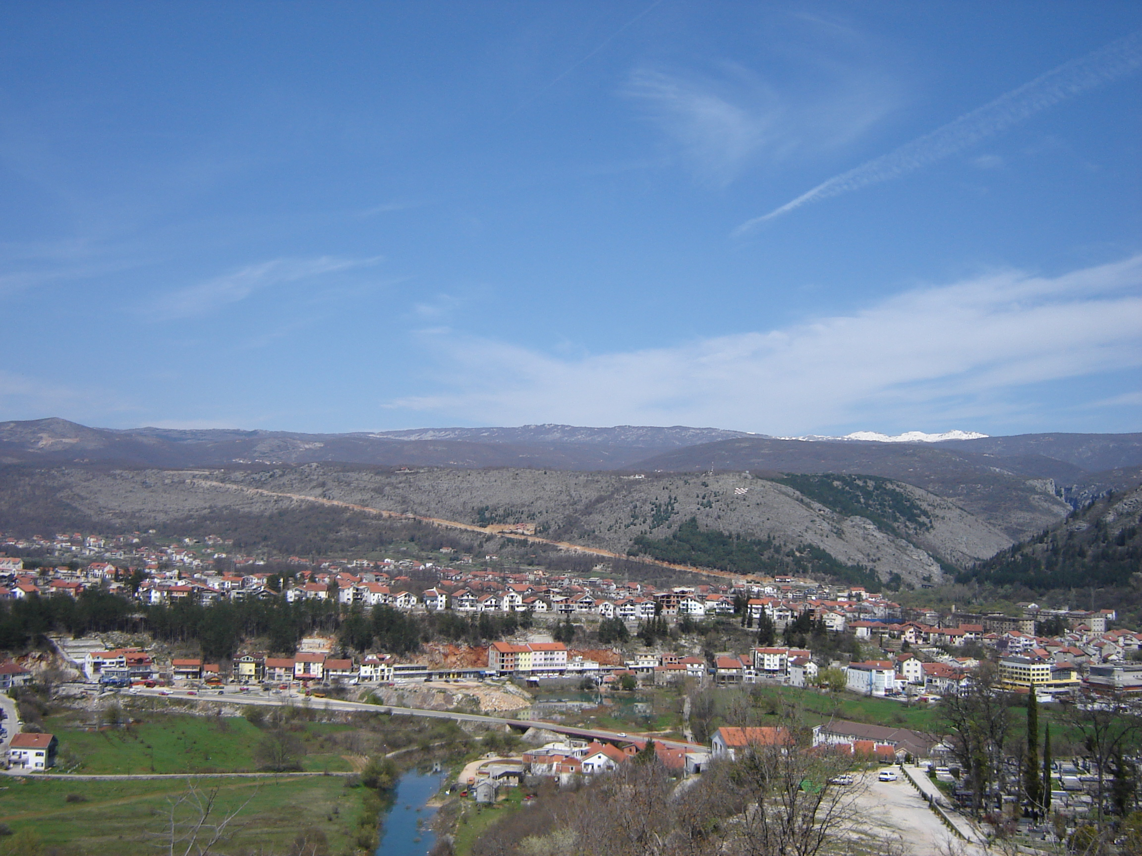 Panoramic view of Crnač, Bosnia and Herezegovina